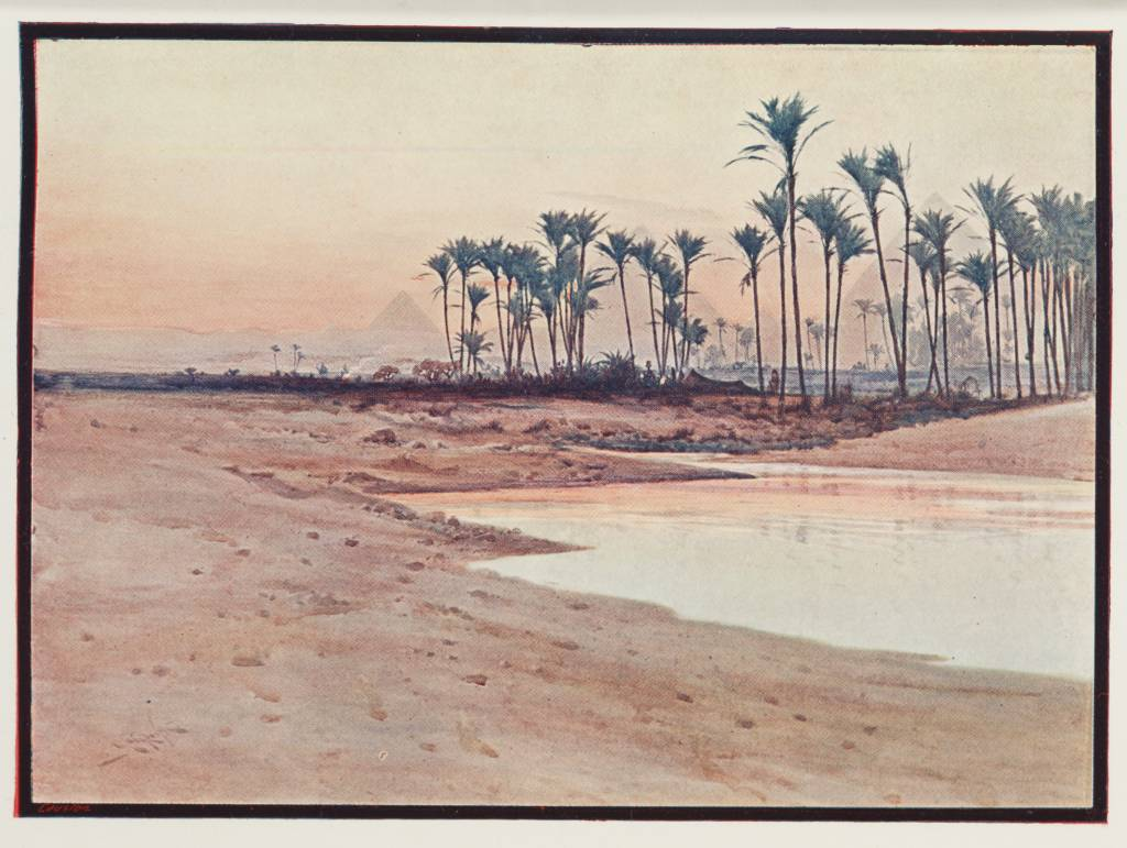 Pastel drawing of an oasis in the desert with pyramids slightly visible on the horizon.